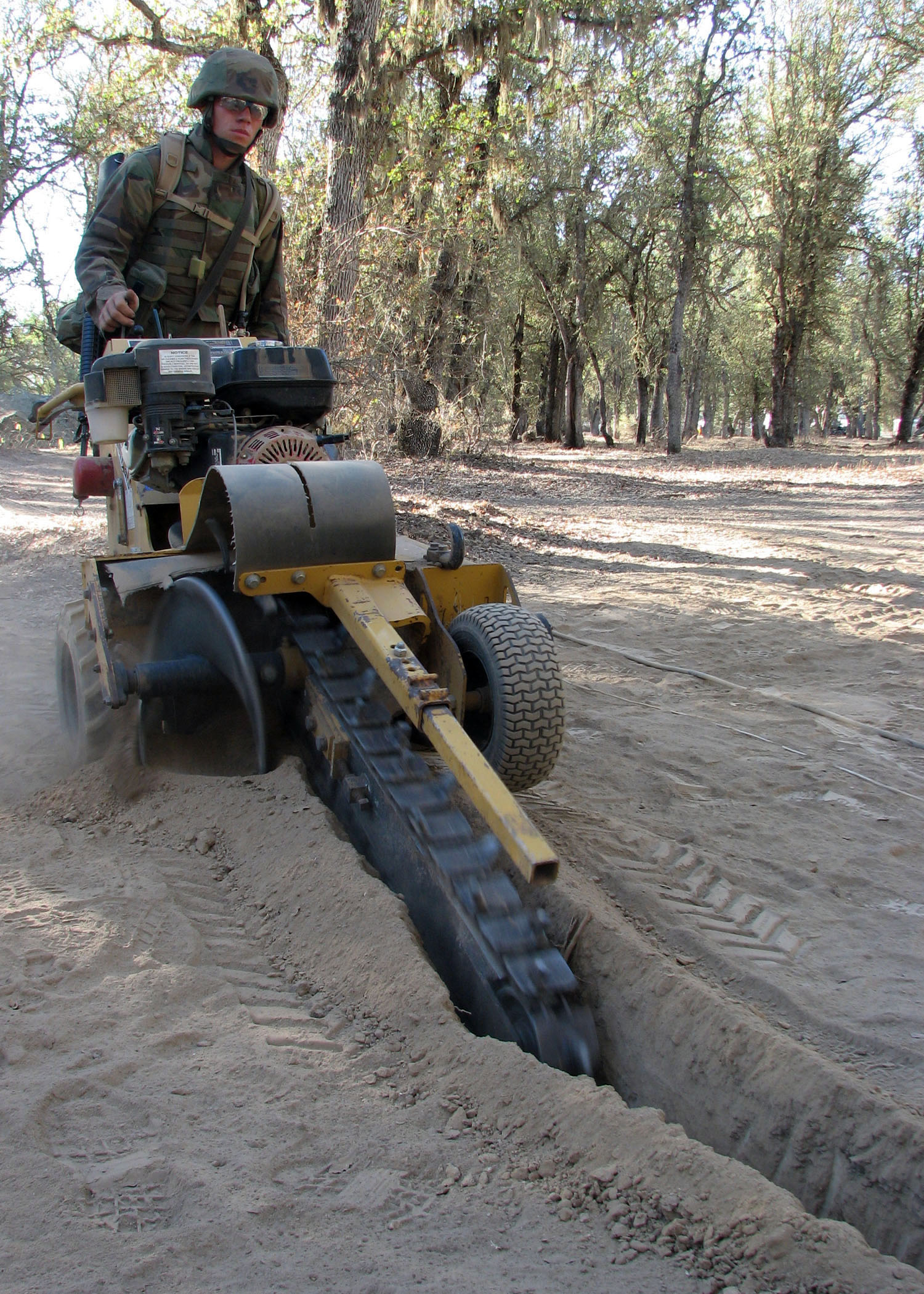 FORT HUNTER LIGGETT, Calif. (Aug. 16, 2007) - Construction Electrician Constructionman Daniel J. Nelson uses a trencher to dig a path for underground communications wire during Operation Bearing Duel 6-07. Nelson is one of more than 450 Seabees of Naval Mobile Construction Battalion (NMCB) 5 taking part in the field exercise, an annual requirement to ensure that battalions are ready to be deployed. U.S. Navy photo by